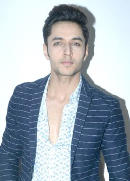 Siddharth Gupta interacting with the media.